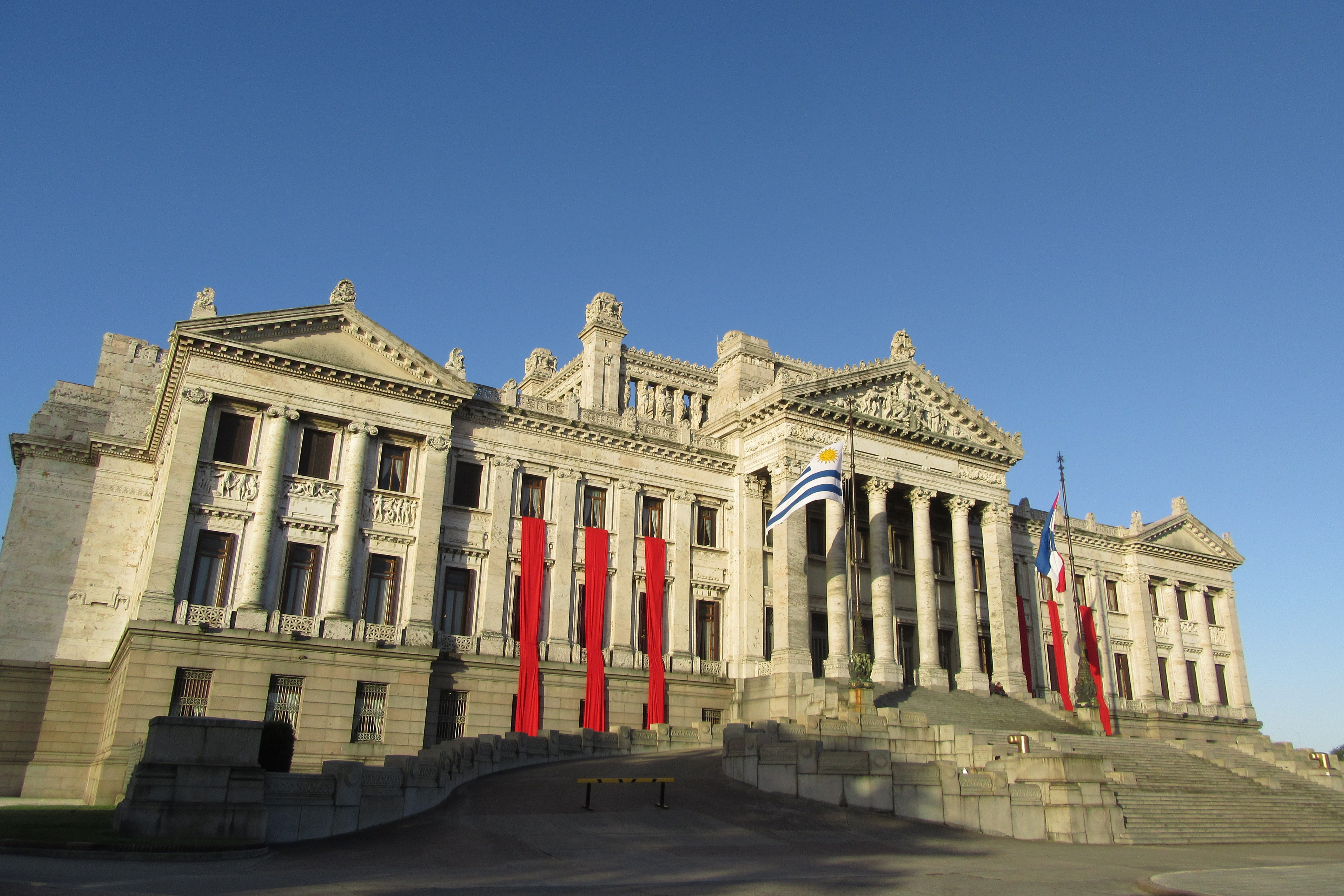 Montevideo